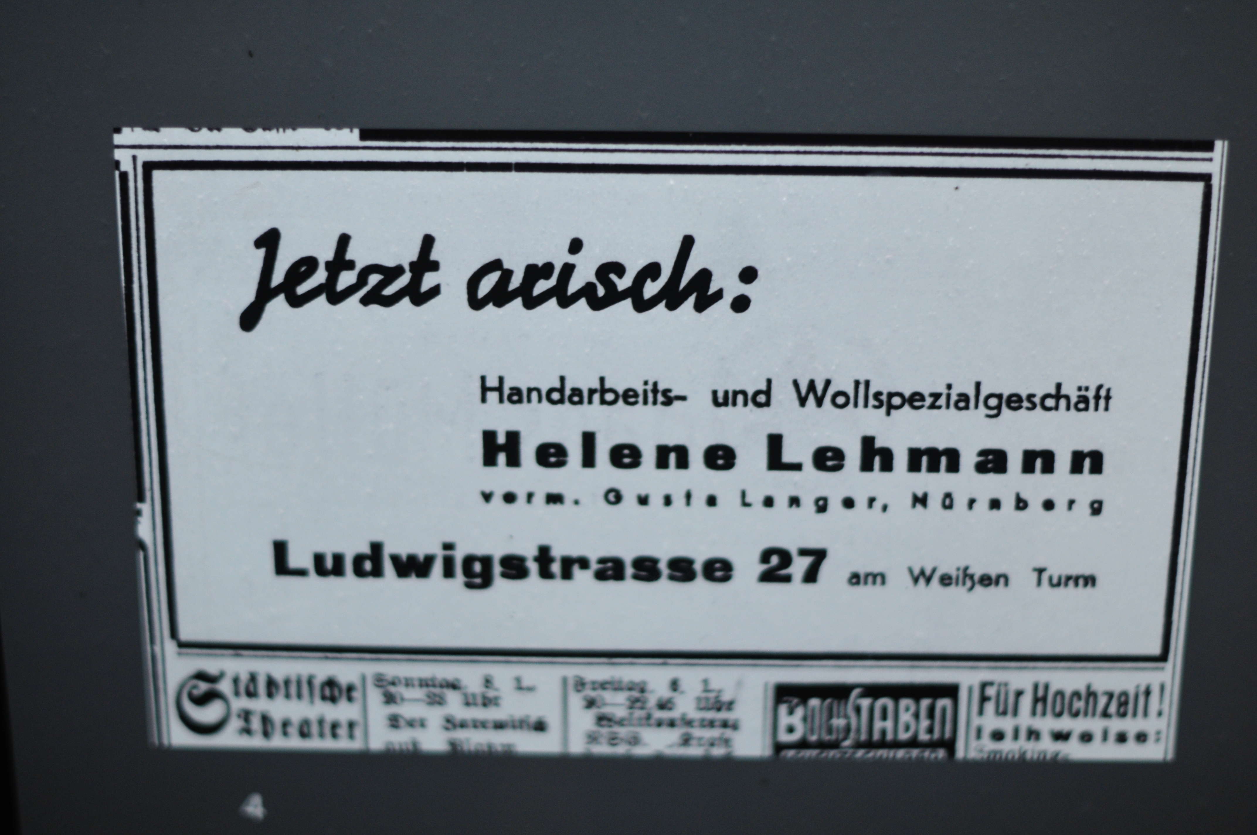 Kongreßhalle Nuremberg at the Reichsparteitagsgelände; Documents The making of this work was supported by Wikimedia Austria. For other files made with the support of Wikimedia Austria, please see the category Supported by Wikimedia Österreich. This file is ineligible for copyright and therefore in the public domain because it consists entirely of information that is common property and contains no original authorship.